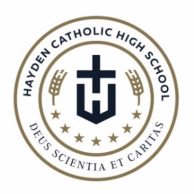 The new Hayden High School Logo